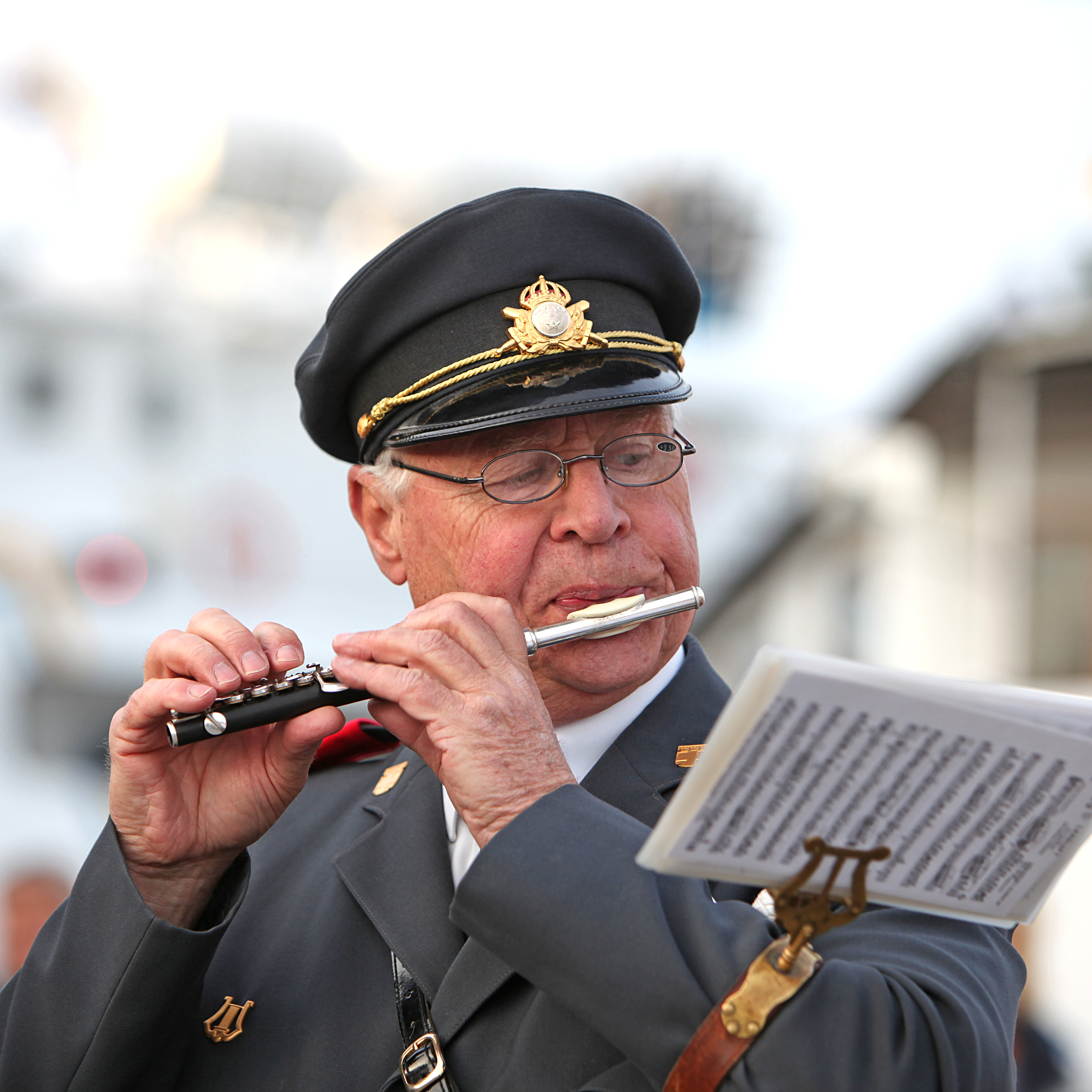 Englih: Man in uniform playing piccolo.